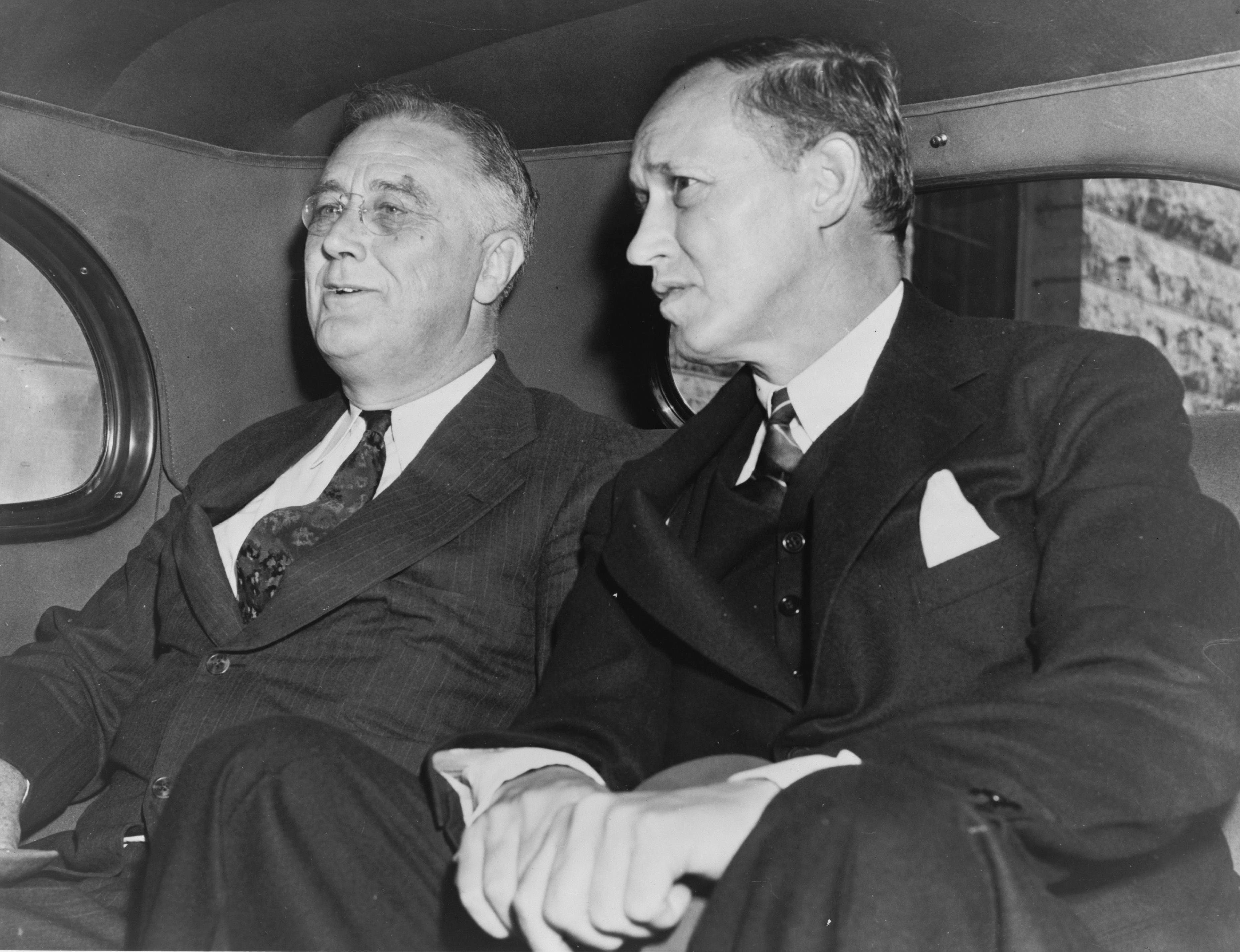 Photograph of President Franklin D. Roosevelt and Harry Hopkins in the back seat of an automobile in Rochester, Minnesota, after visiting son James Roosevelt in hospital. FDR arrived in Rochester September 11, 1938 and departed September 14, 1938.